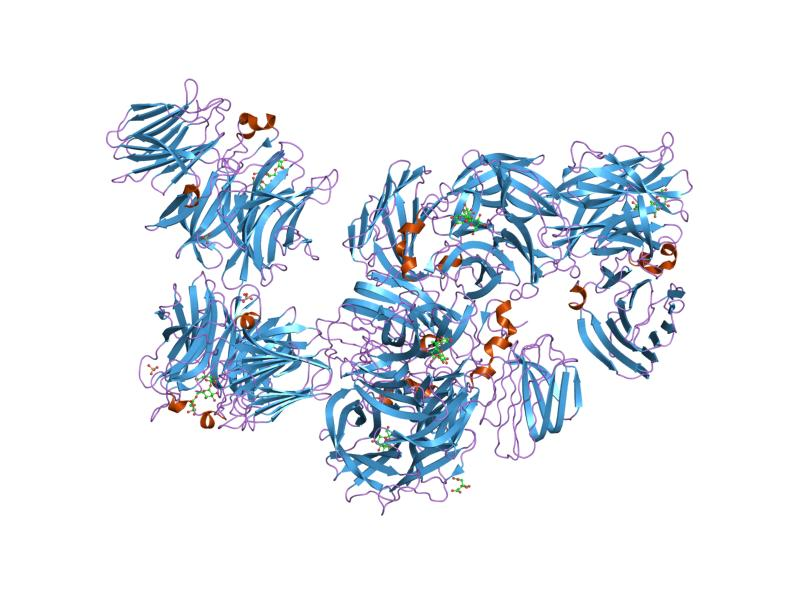 Cartoon representation of the molecular structure of protein registered with 1w2t code.